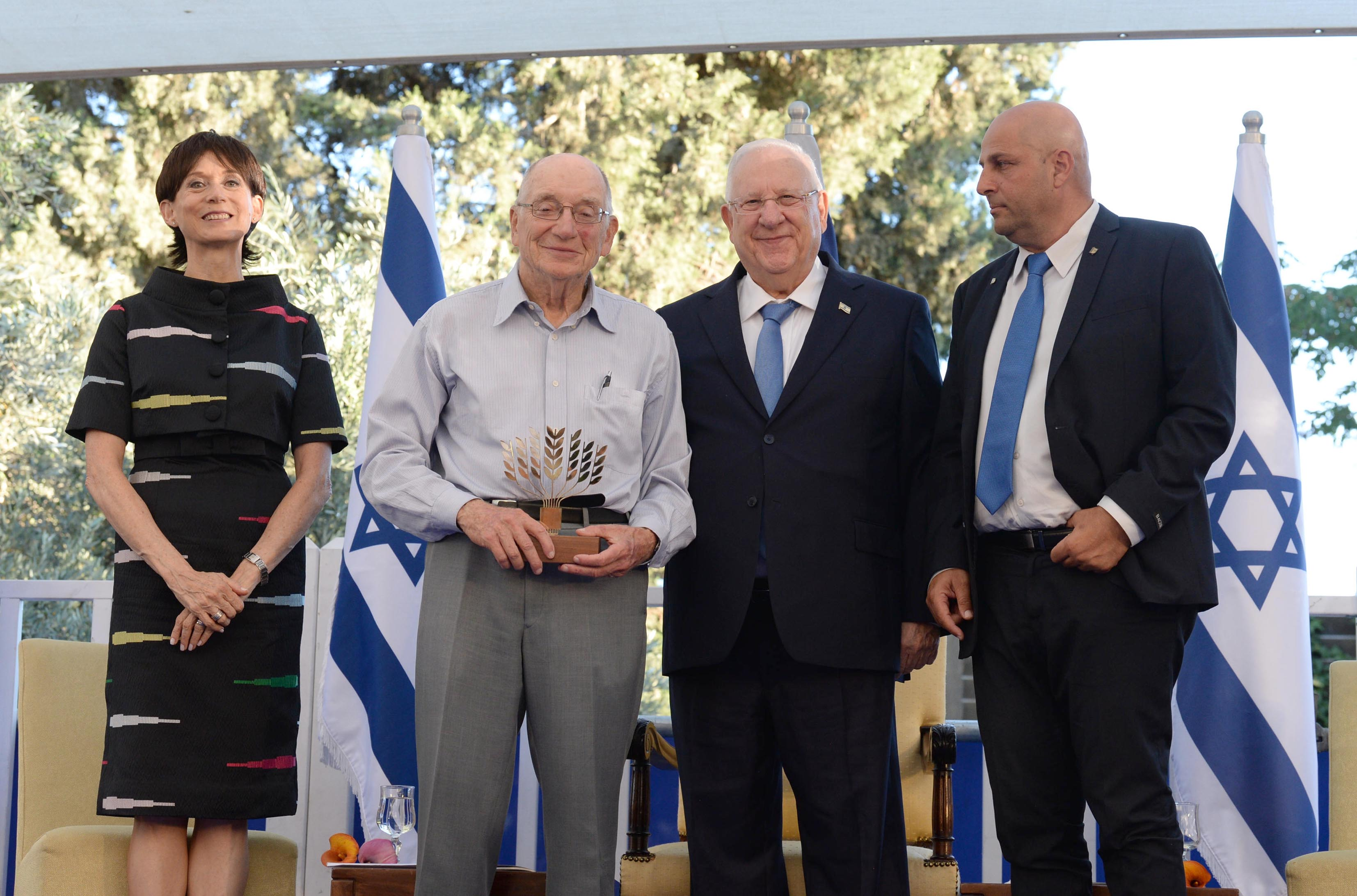 President’s Prize for Volunteerism (Ot Hamitnadev) - 2018. From right to left: Chairman of the Volunteer Council Adv. Yoram Sagi Zaks, President Reuven Rivlin, Haim Roth and Chairman of the Advisory Committee Prof. Suzy Navot.